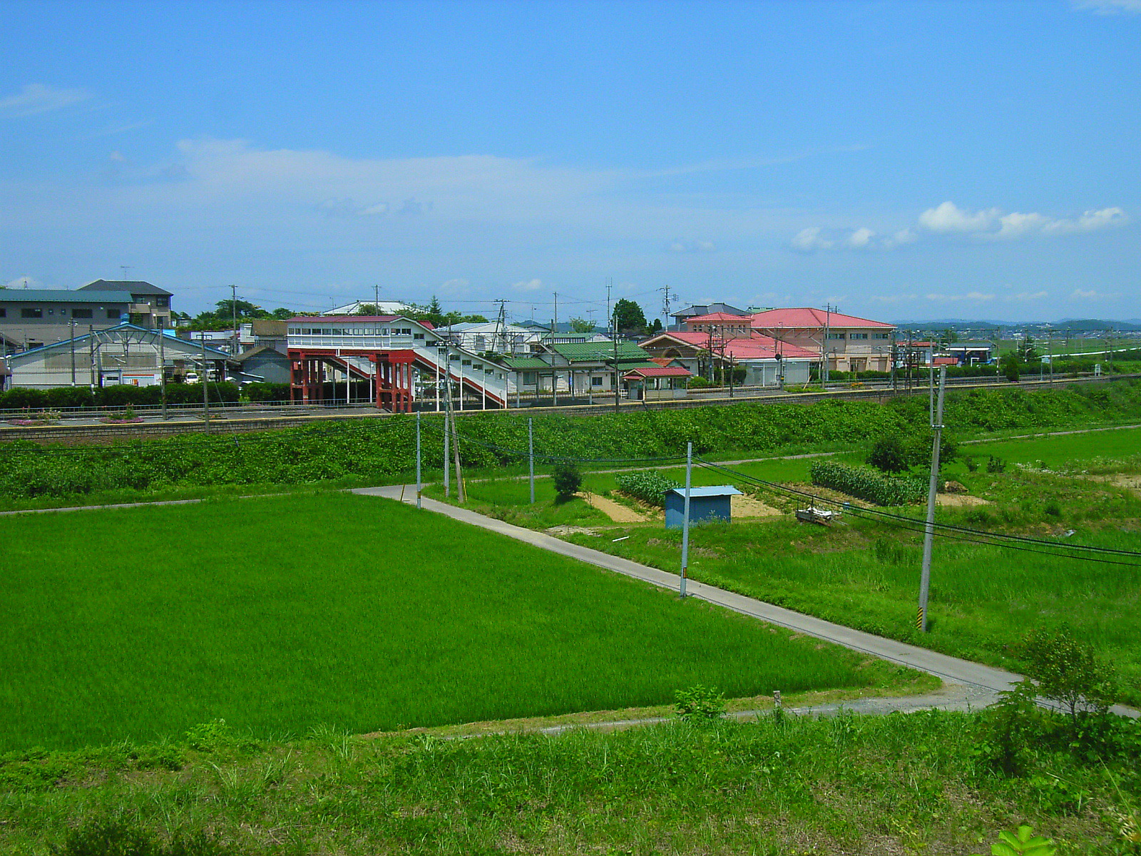 Shinainuma Station of the Tōhoku Main Line. Matsushima, Miyagi prefecture, Japan.